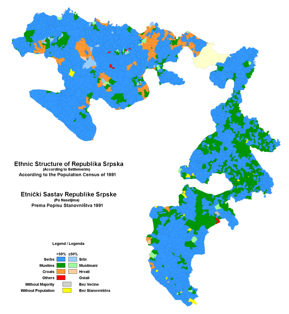 This is an ethnic map of Republika Srpska according to settlements. It is made according to data from the 1991 population census.